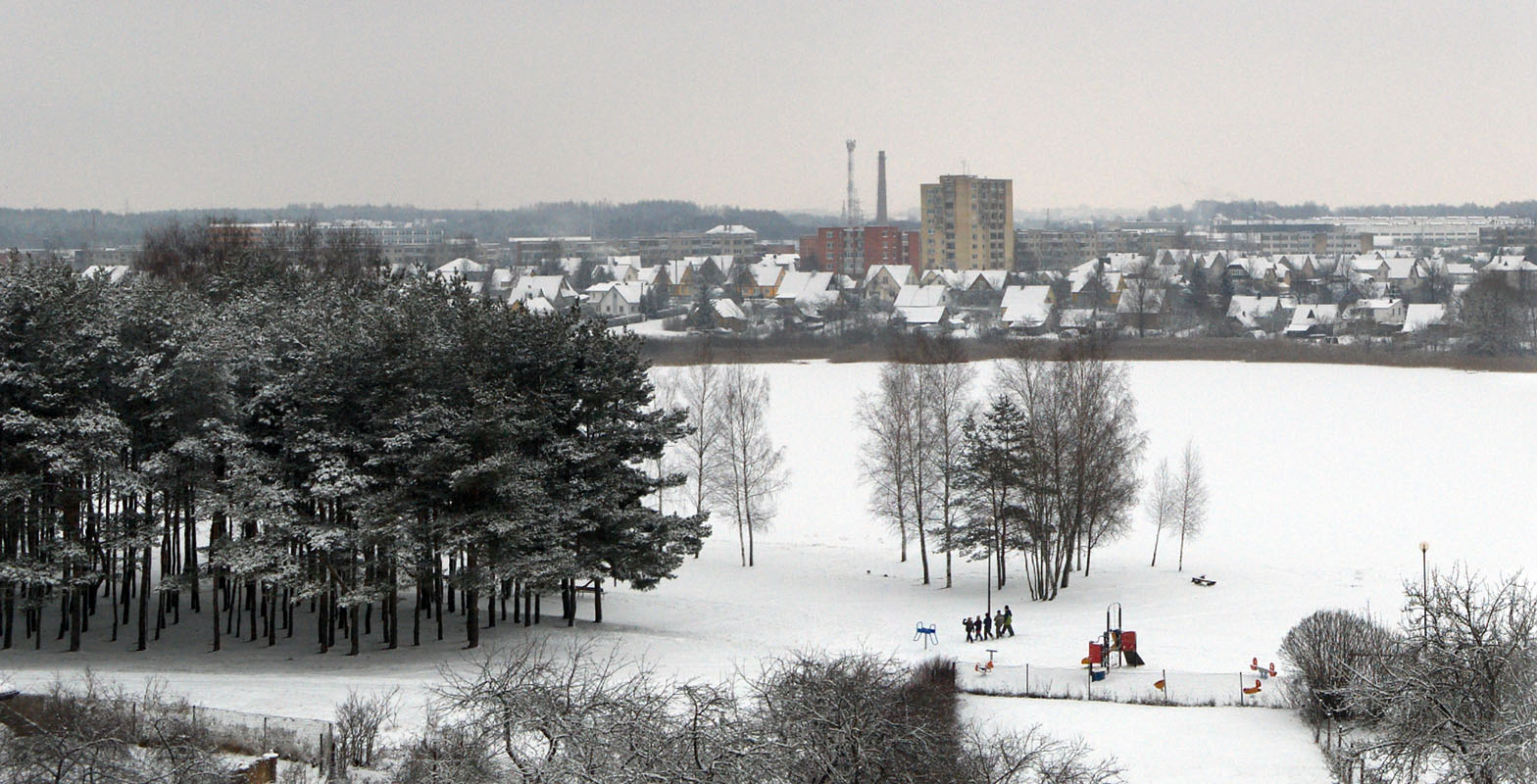 Utena city in winter